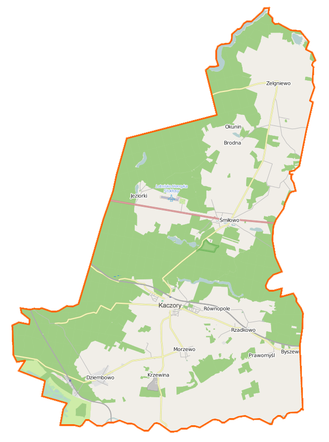 Map of Gmina Kaczory, Poland This map of Kaczory (gmina) was created from OpenStreetMap project data, collected by the community. This map may be incomplete, and may contain errors. Don't rely solely on it for navigation. Border coordinates53.225216.7675←↕→16.989553.0464